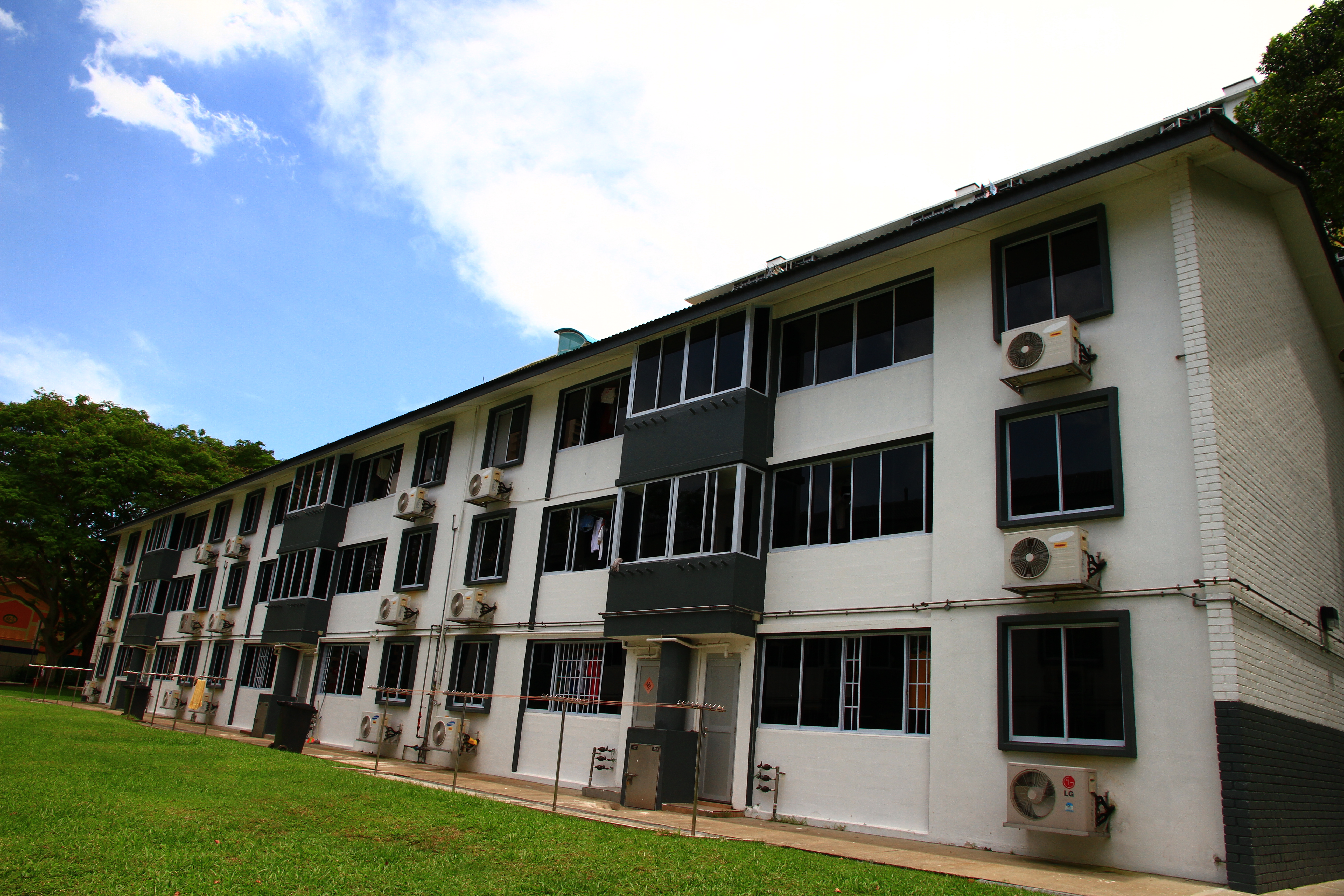 Block 73 Commonwealth Drive is one of the nine blocks of flats designed by Singapore Improvement Trust